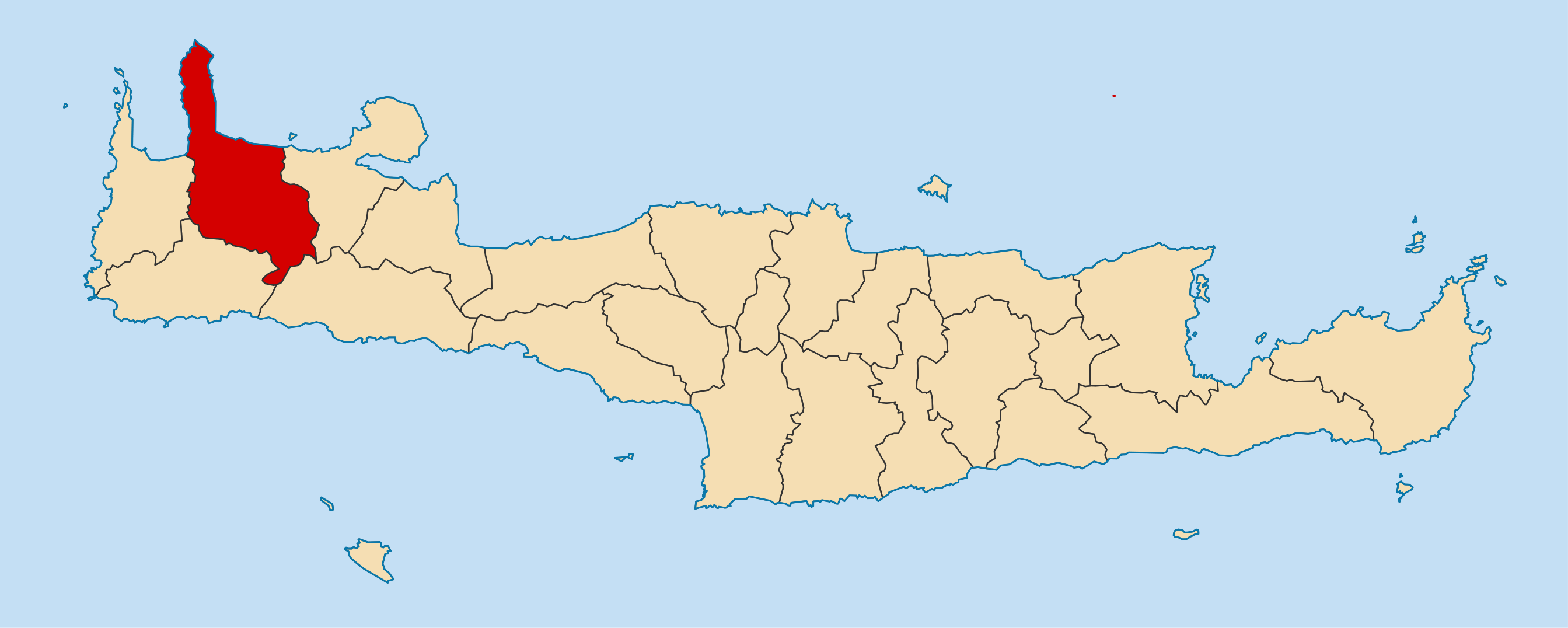 Locator map for Platanias municipality in Greek region Crete (2011)